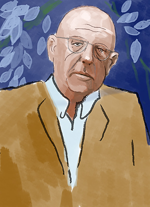 Cornelius Castoriadis (Greek: Κορνήλιος Καστοριάδης, March 11, 1922-December 26, 1997) a Greek philosopher, economist and psychoanalyst